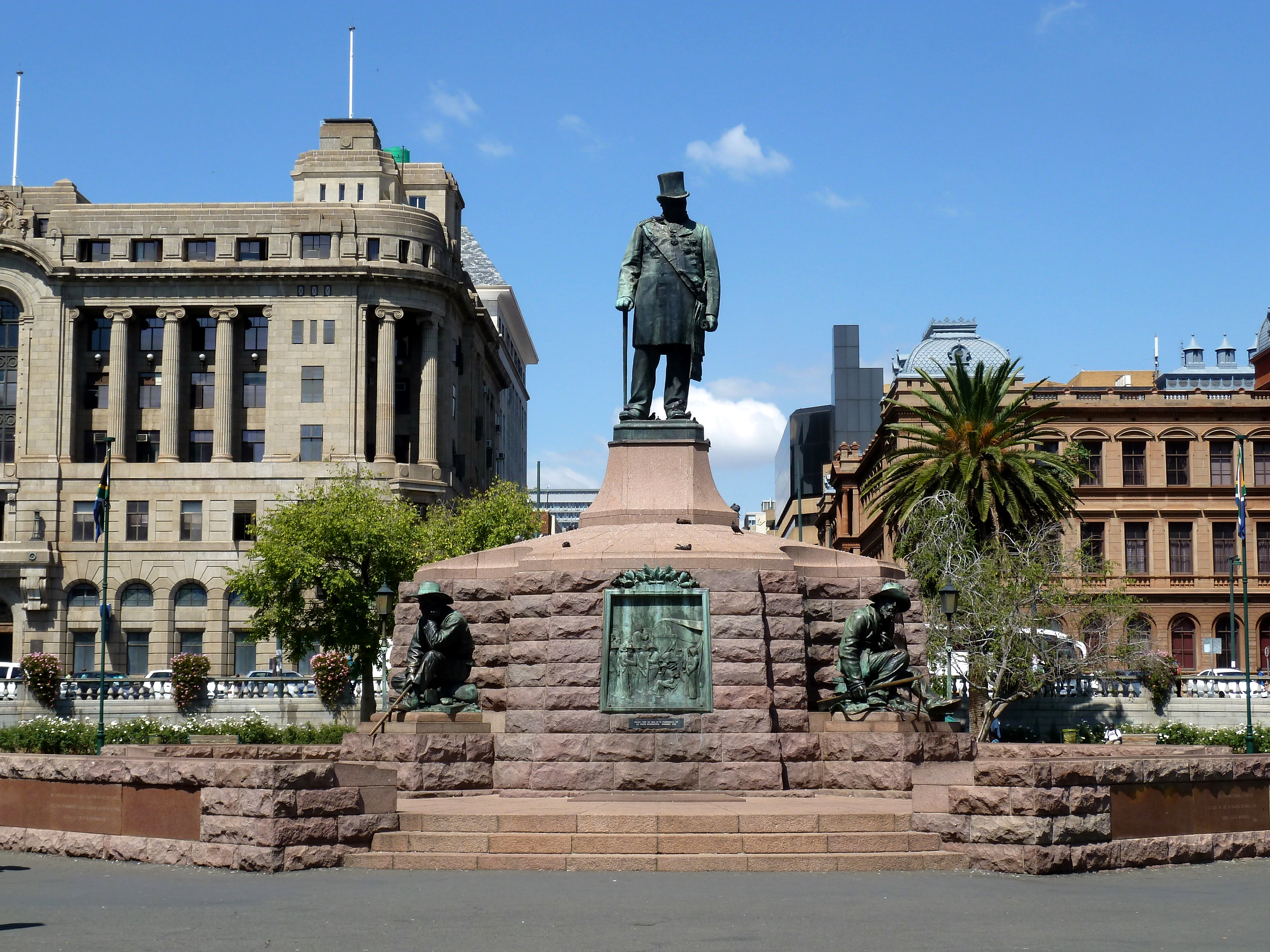 Northern aspect of the Paul Kruger statue on Church Square, Pretoria